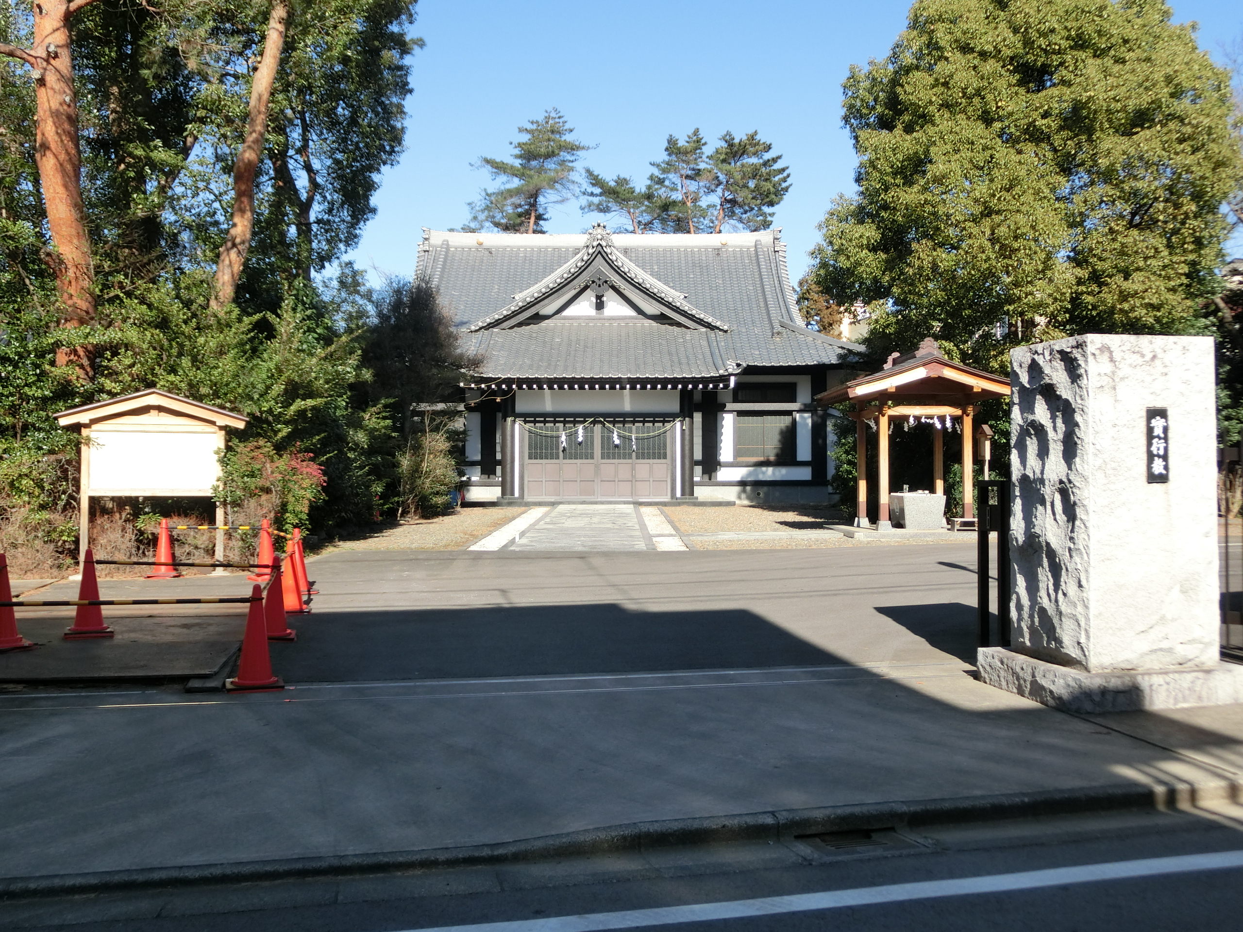 Jikkokyo Headquarters